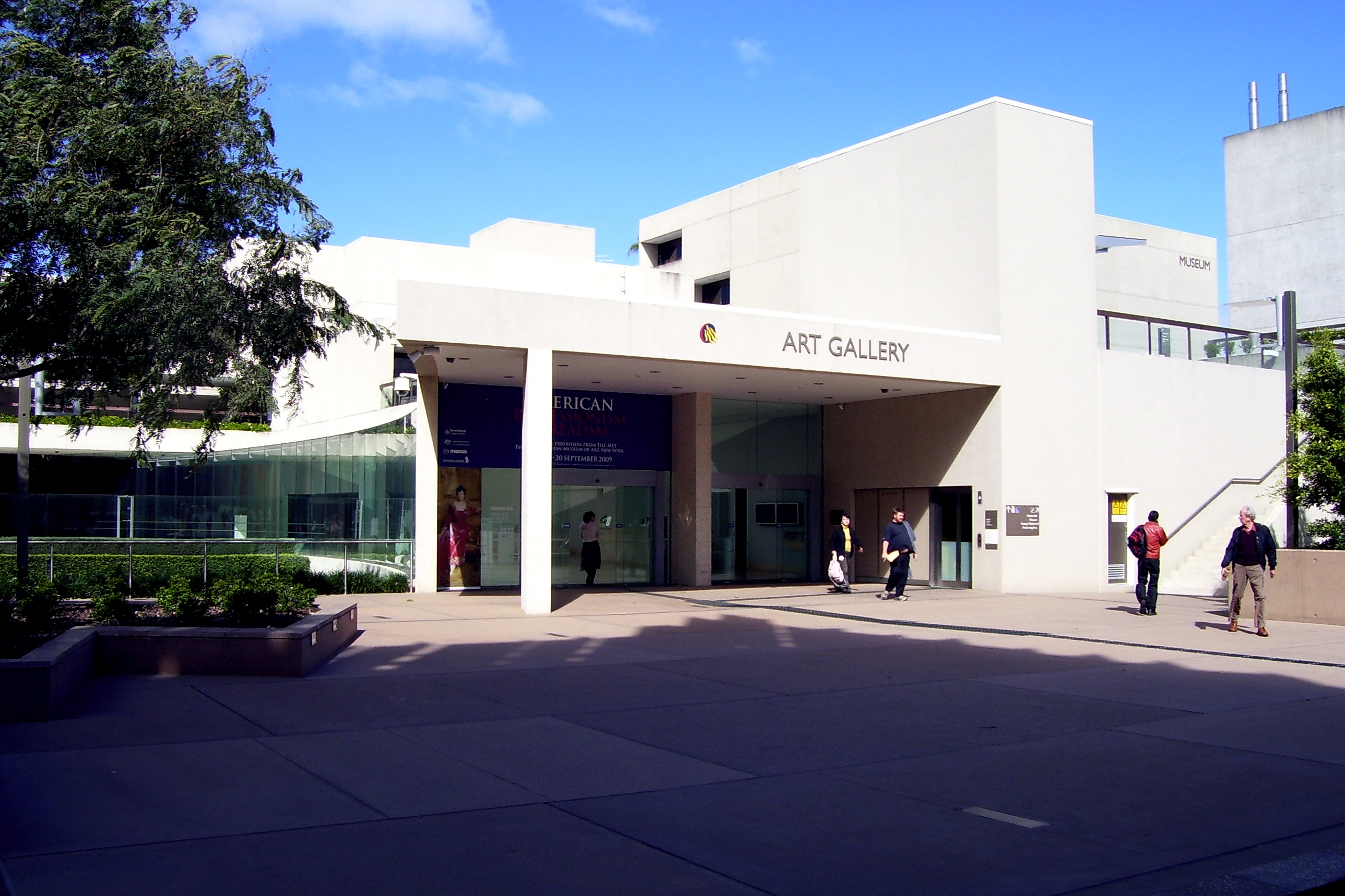 Queensland Art Gallery, Stanley Place entrance